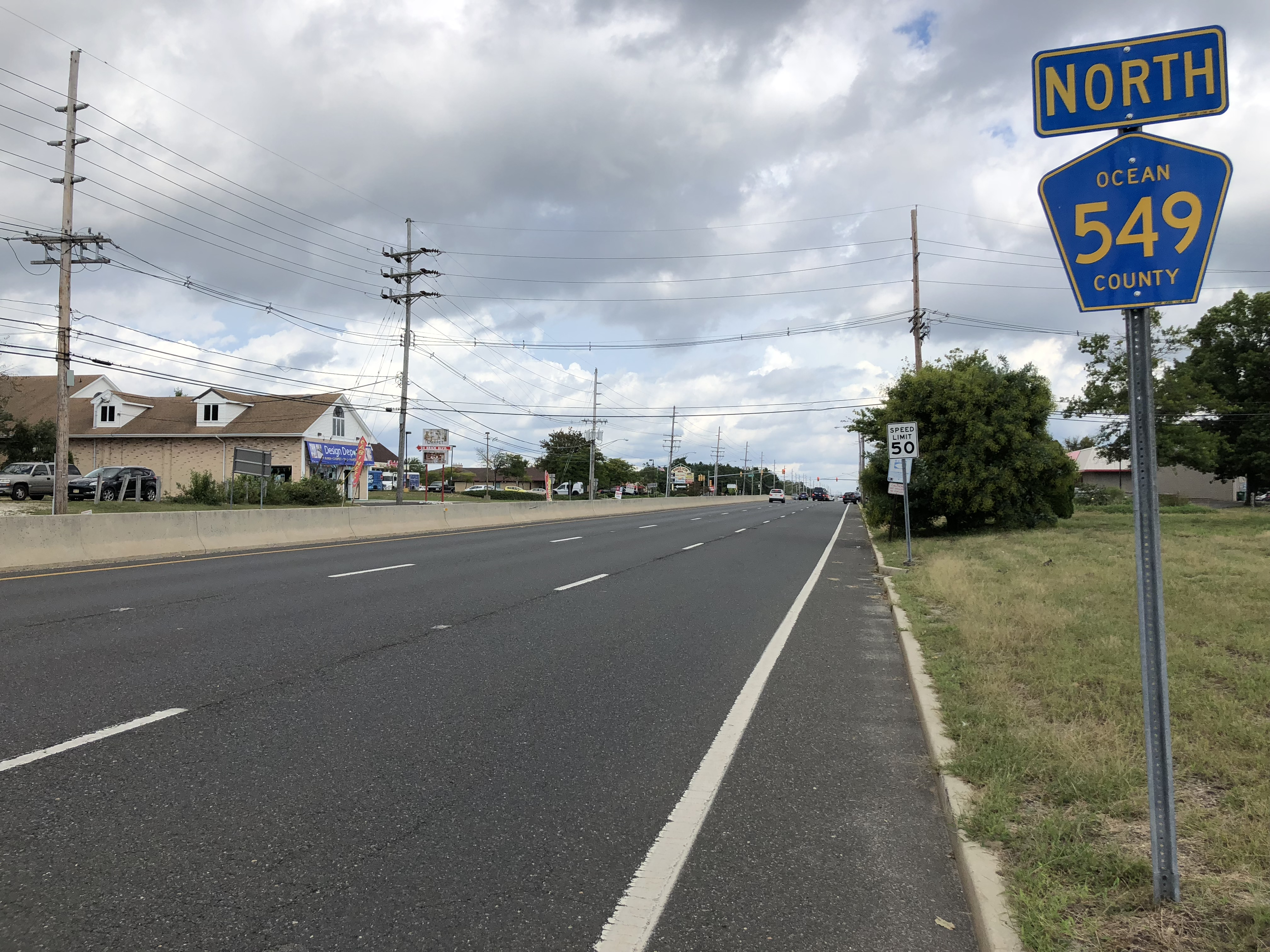 View north along Ocean County Route 549 (Brick Boulevard) just north of Ocean County Route 631 (Hooper Avenue) in Brick Township, Ocean County, New Jersey